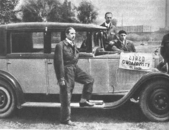 A Stetysz car with its constructor, Stefan Tyszkiewicz, circa 1926